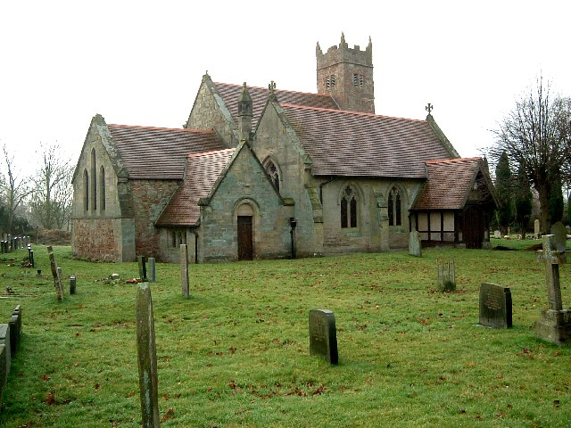 Baxterley parish church, Warwickshire, seen from the northeast